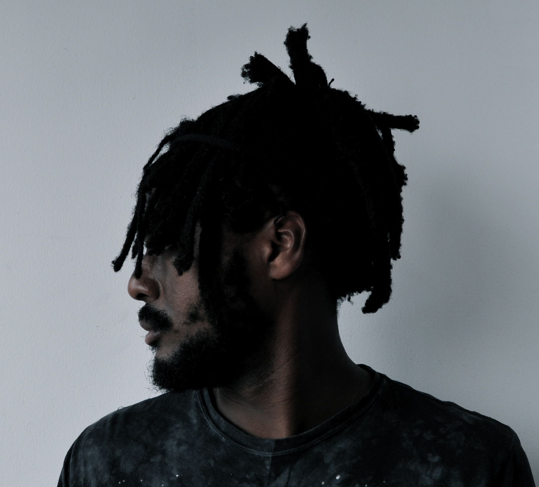 k-os 2011 Official Publicity Photo